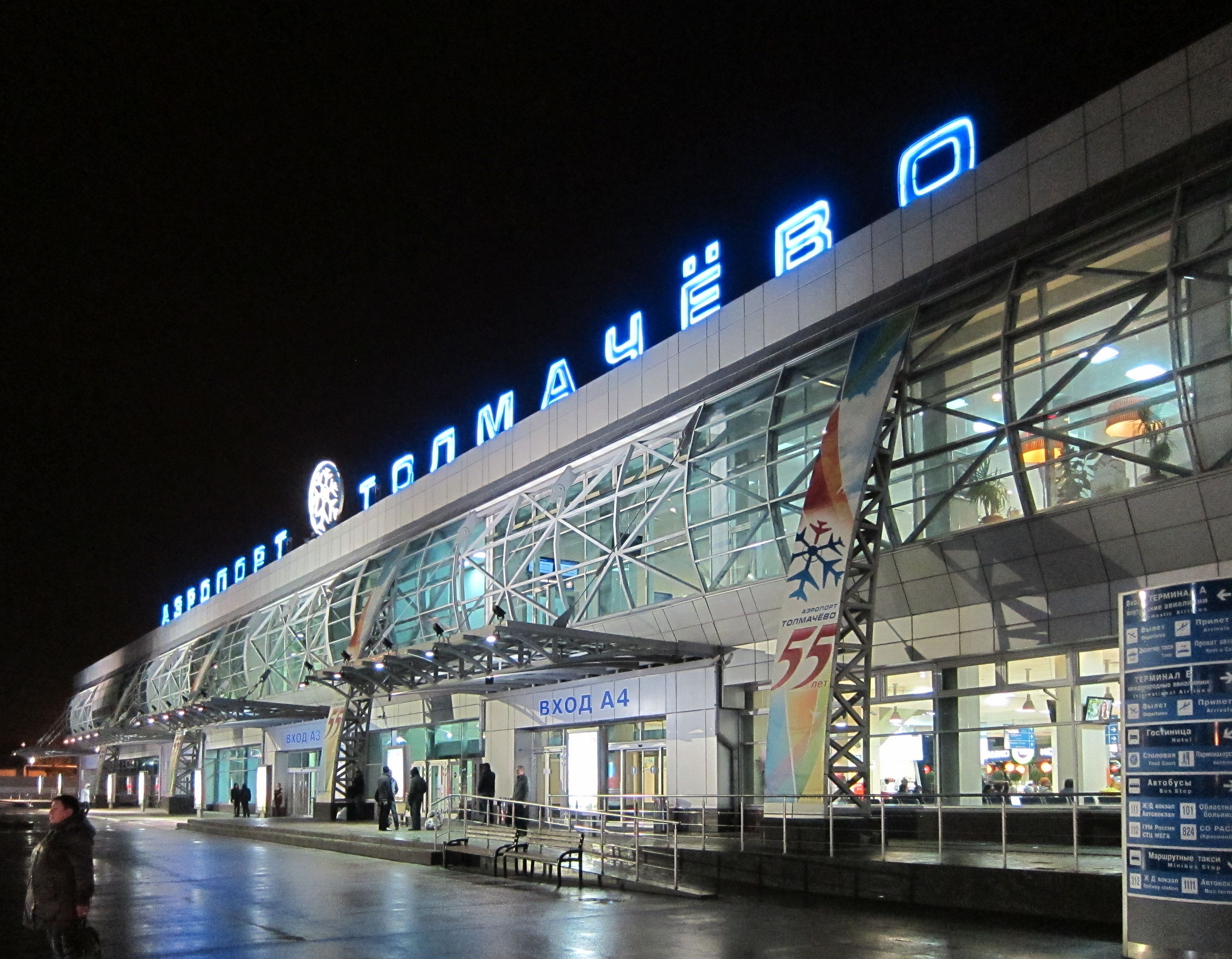 Domestic terminal of Novosibirsk Tolmachevo Airport